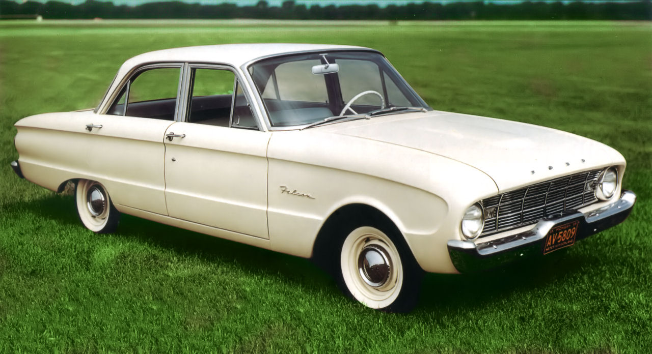 1960 Ford Falcon 4d sdn cream fvr